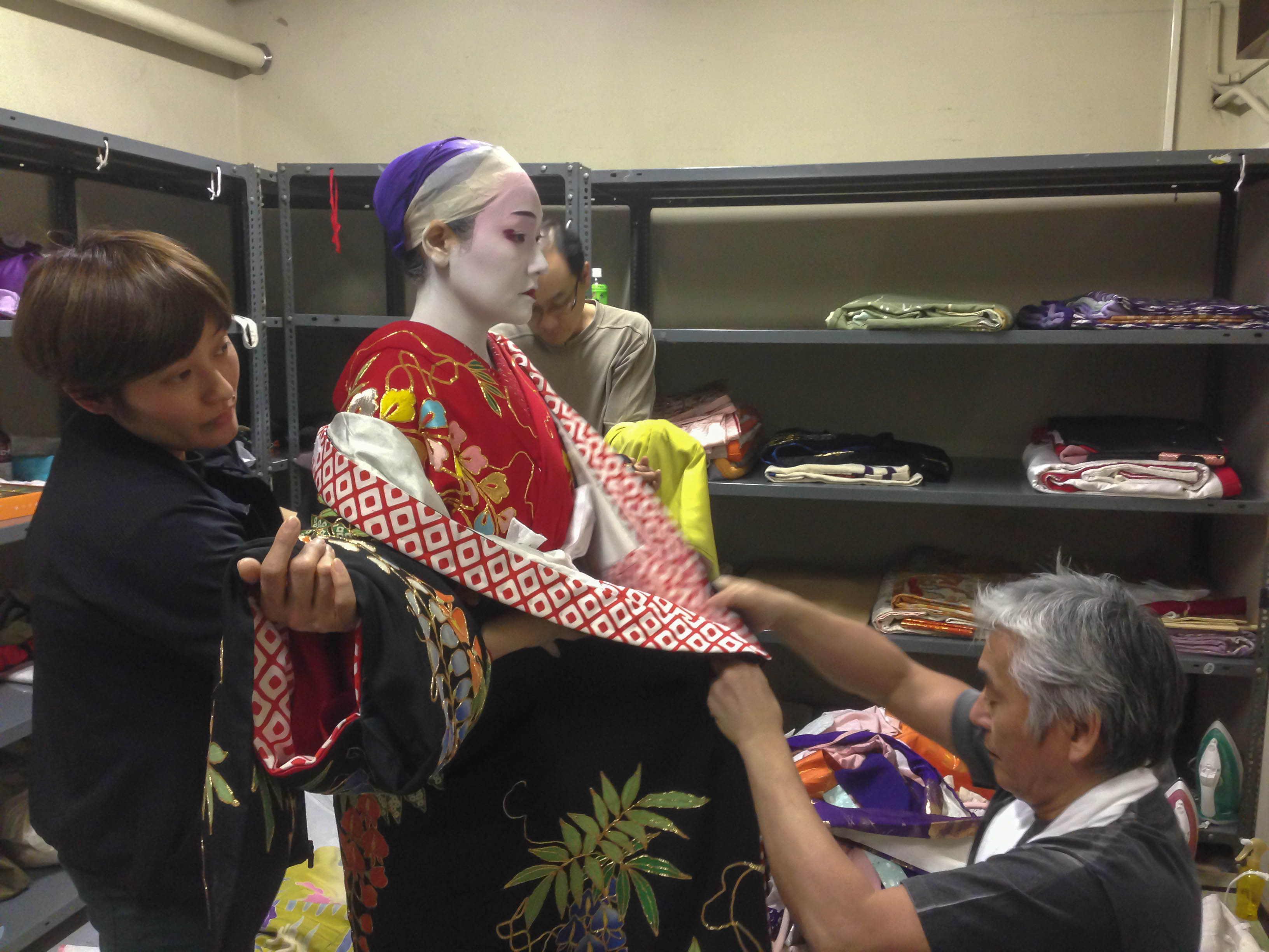 In 楽屋 of 国立劇場